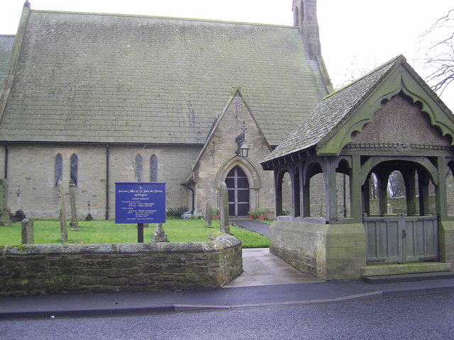 Parish Church of St John Acklington